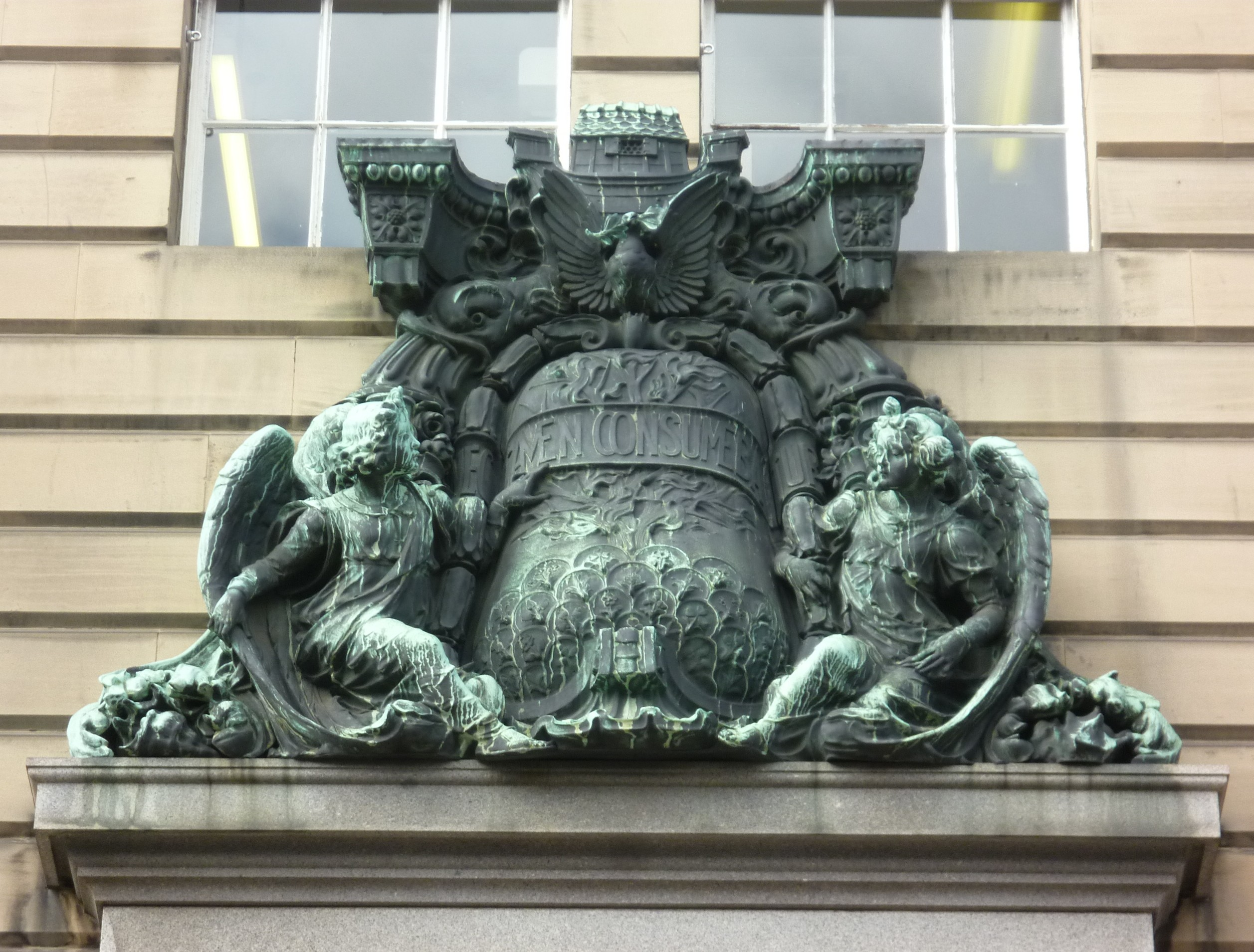 Burning Bush sculpture, Church of Scotland Offices, 121 George Street, Edinburgh. The Latin motto "nec tamen consumebatur" translates as "Yet it was not consumed". The biblical bush seems intended to recall failed attempts to extinguish Presbyterianism in the 17th century. It was first used as a printer's device in "The Principal Acts of The [General] Assembly" published in 1691.